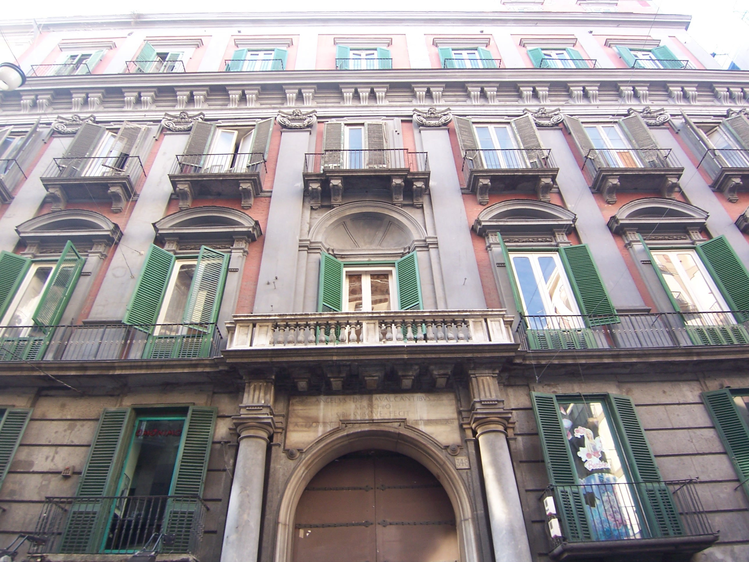 Palazzo Cavalcanti in Naples, Italy